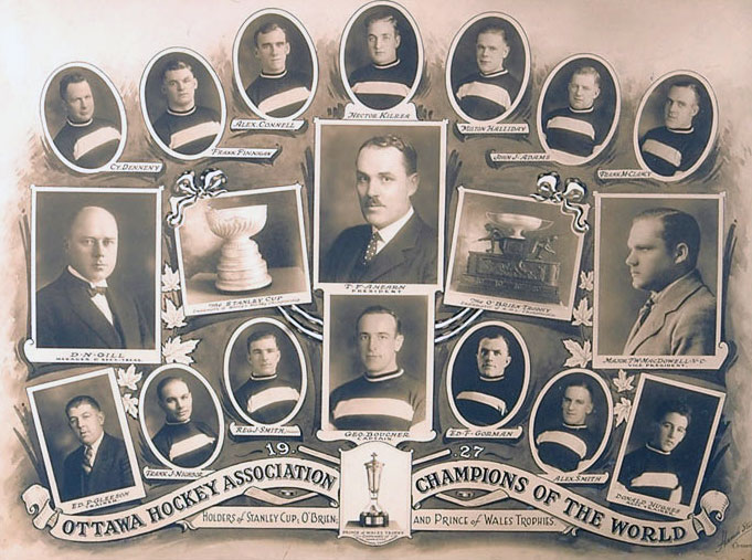 Composite of photographs of team members, team executives and trophies of Ottawa Hockey Club (known as the Senators).